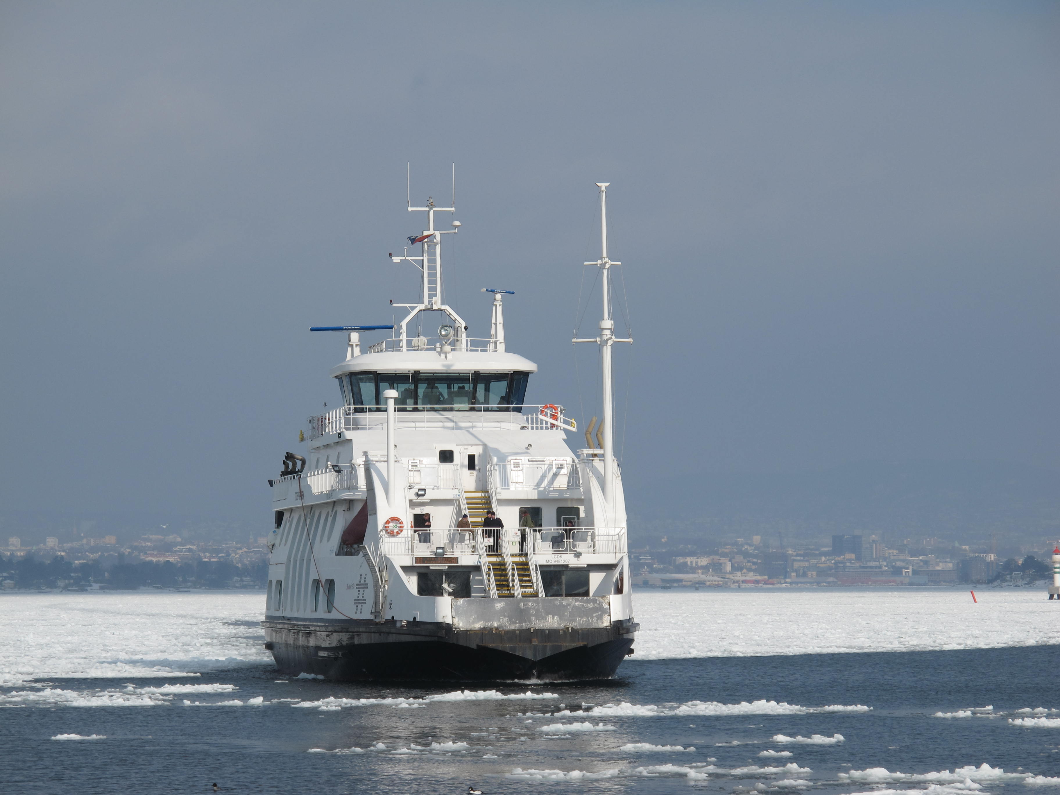 Passenger ferry between Oslo and the PNesodden peninsula